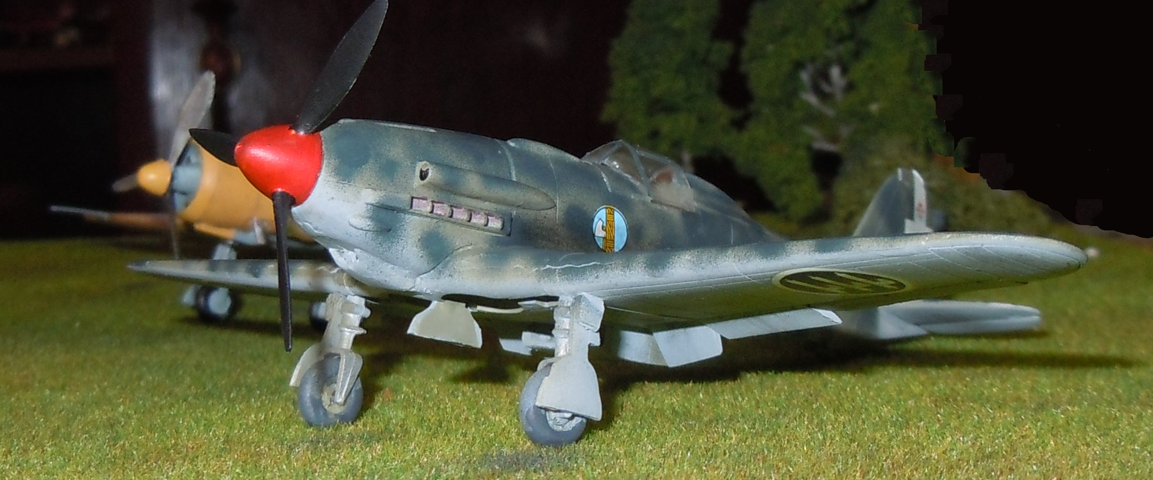 Model of a Fiat G.50V with DB601 engine. More pics of the same are avialable on